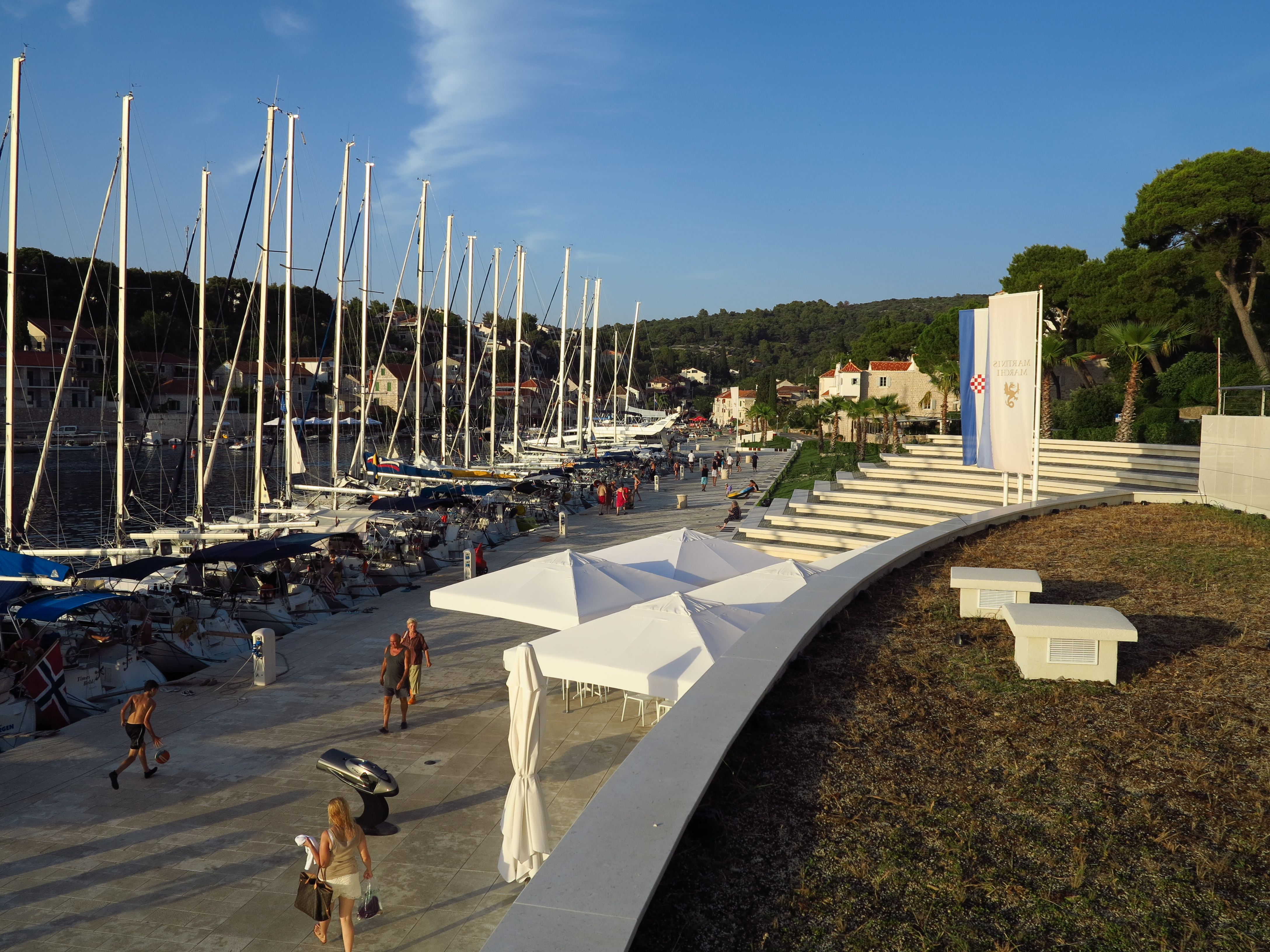 The Marina of Maslinica on the island Šolta / Croatia / Adriatic Sea.